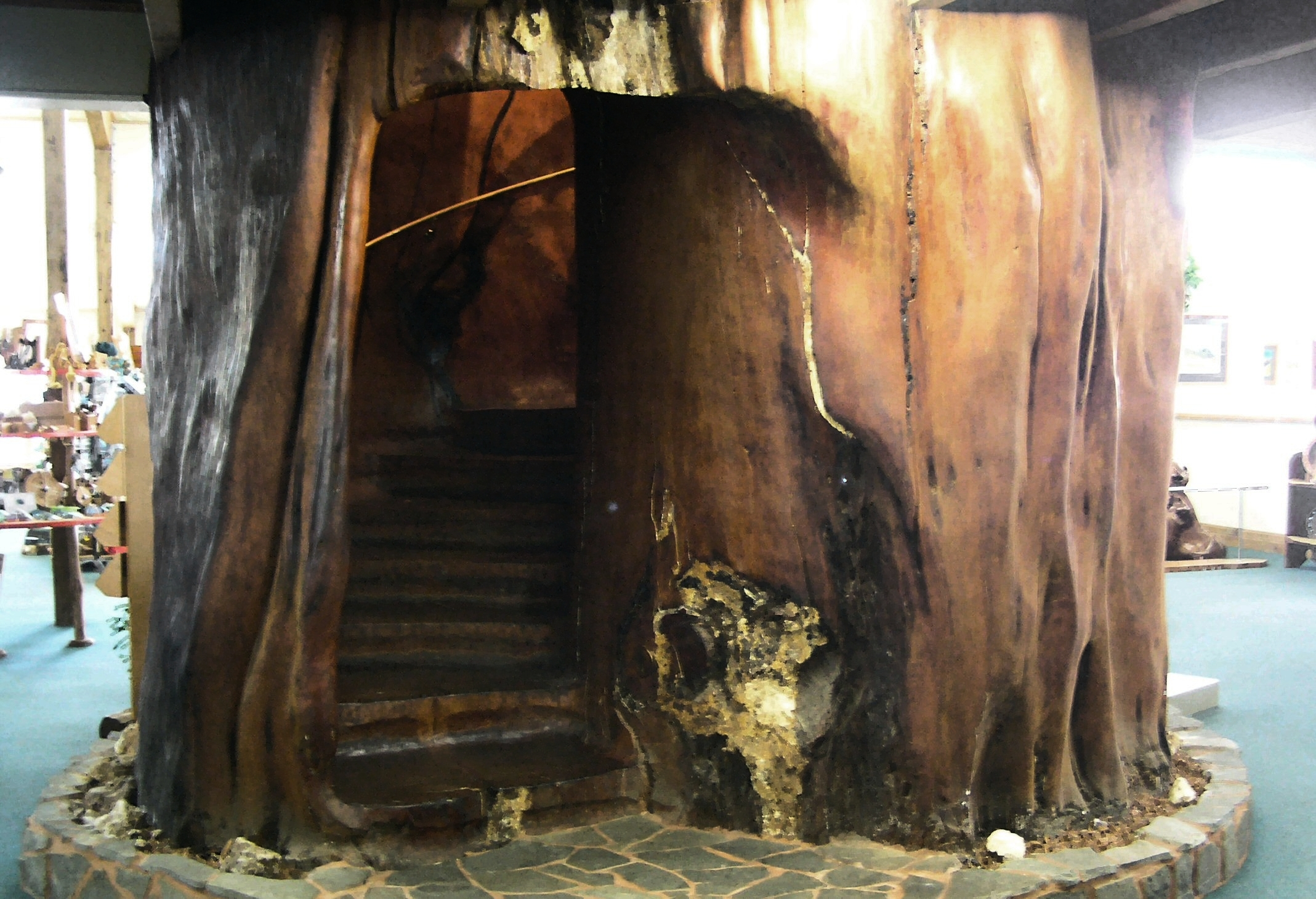 Stairs carved into an ancient kauri trunk (Ancient Kauri Museum, Awanui, near Kaitaia, Northland, New Zealand)